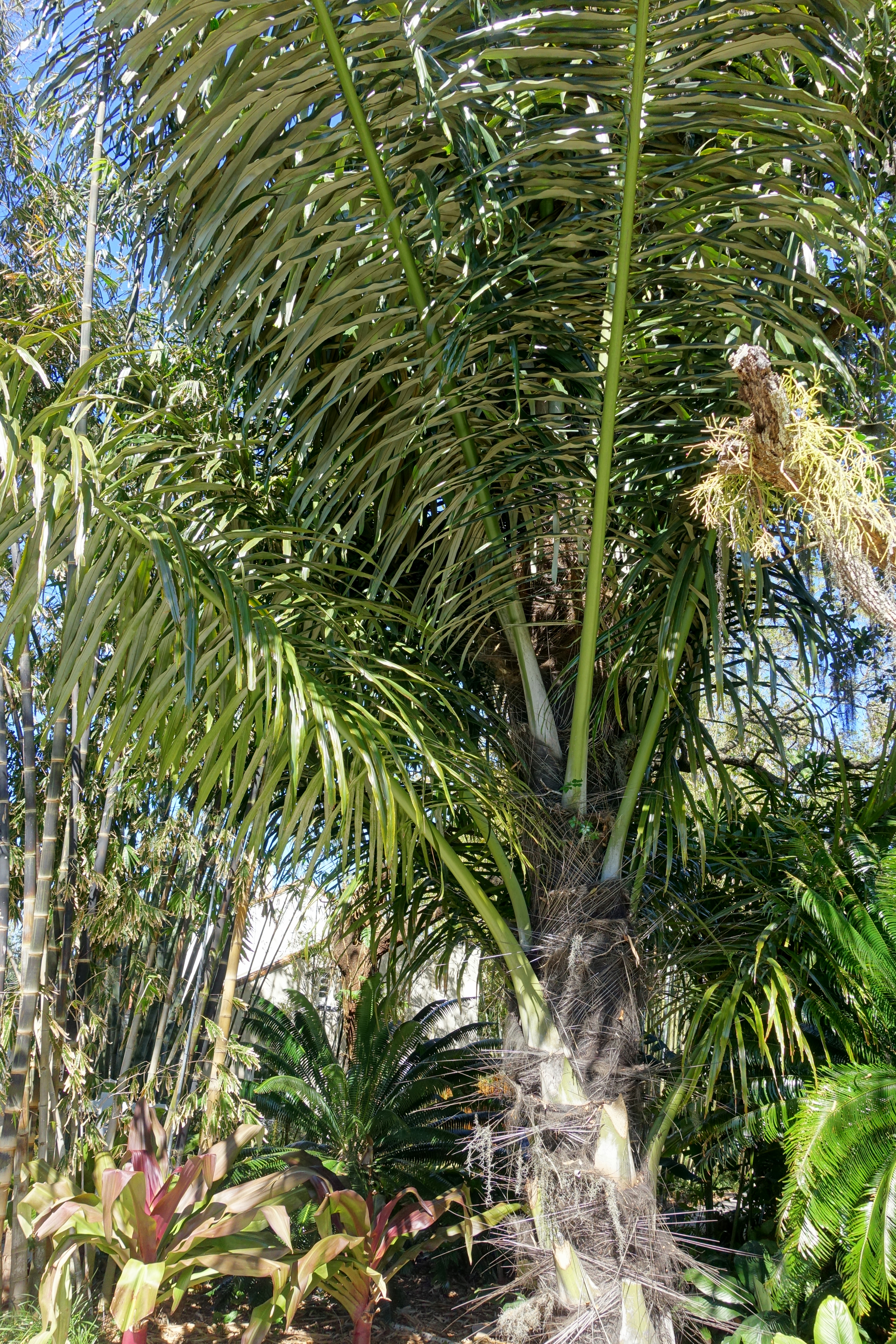 Botanical specimen in the Marie Selby Botanical Gardens - Sarasota, Florida, USA.